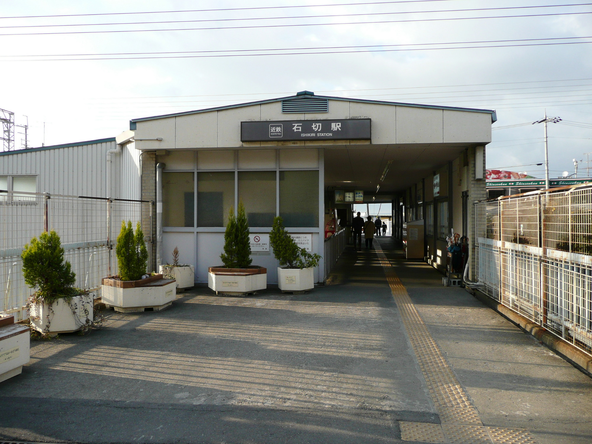 Kinki Nippon Railway,Nara Line,Ishikiri Station northeast entrance. /近鉄奈良線駅石切駅北(東)出入口